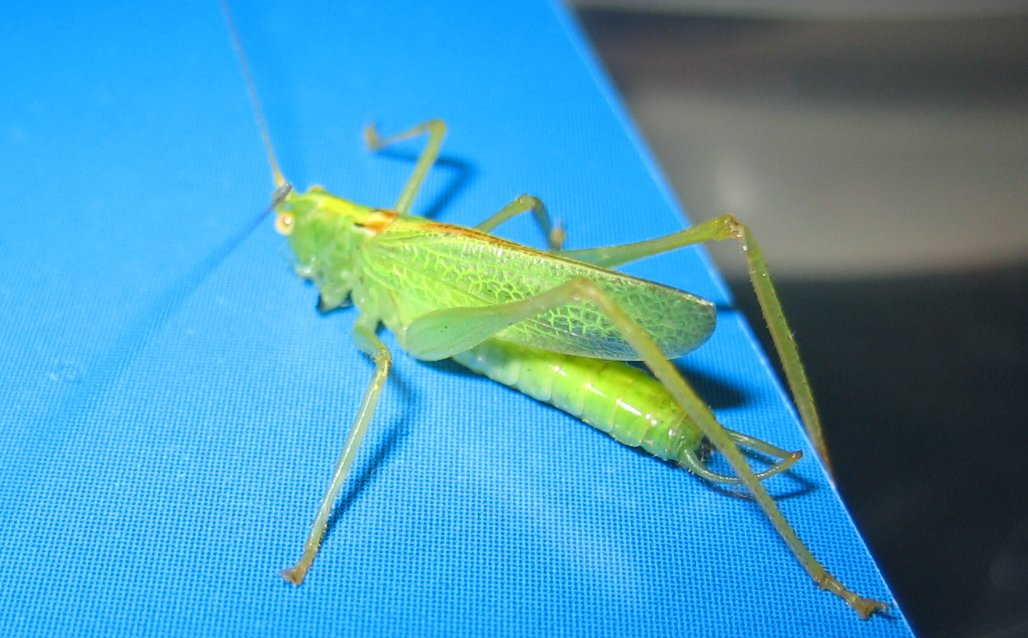 Meconema thalassinum (oak bush-cricket) indoors